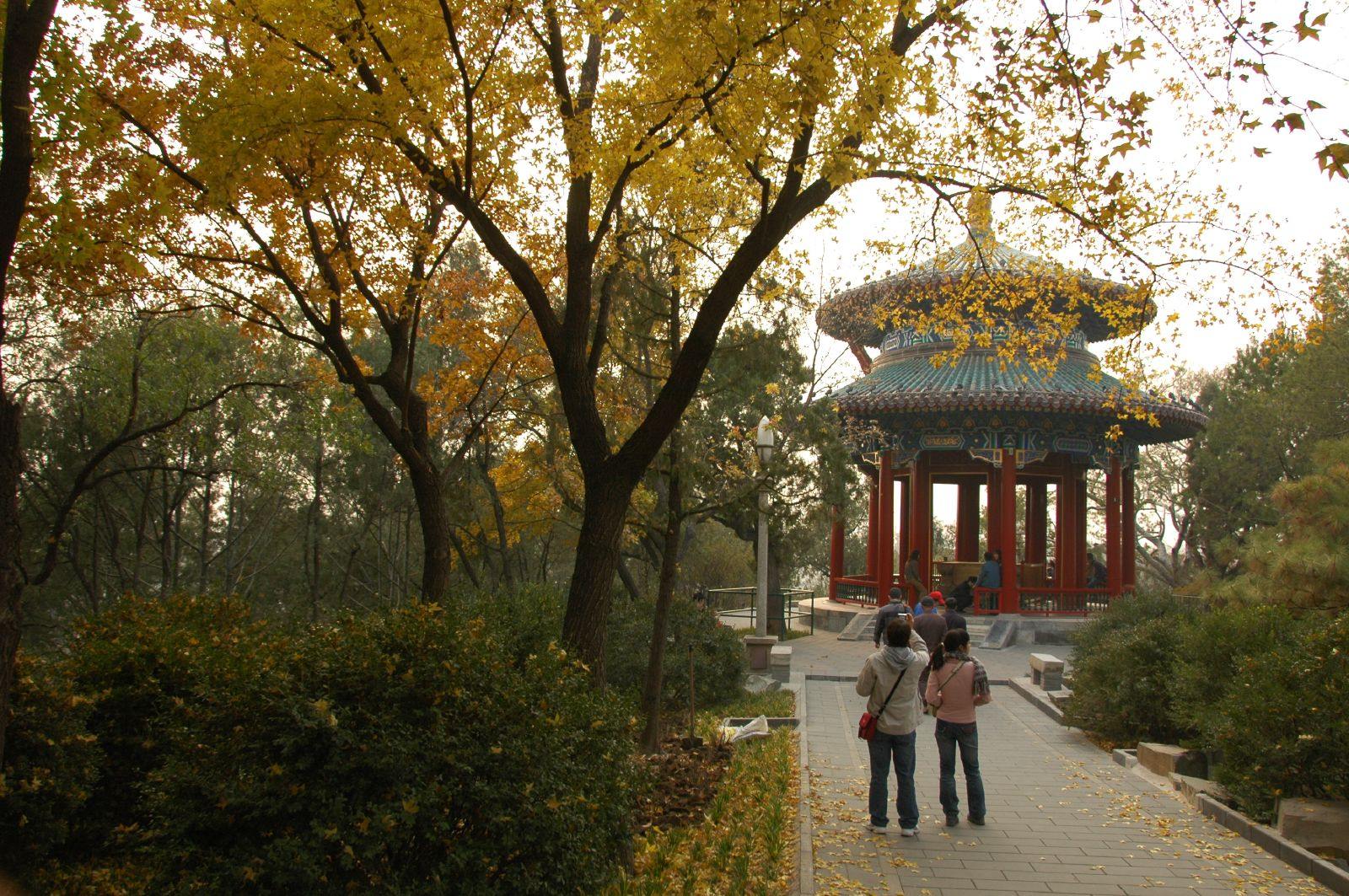 Pavilion in Jingshan Park, a former imperial garden in Beijing